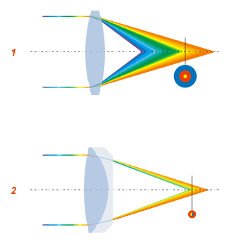 Scheme of chromatic aberation of an optical lense